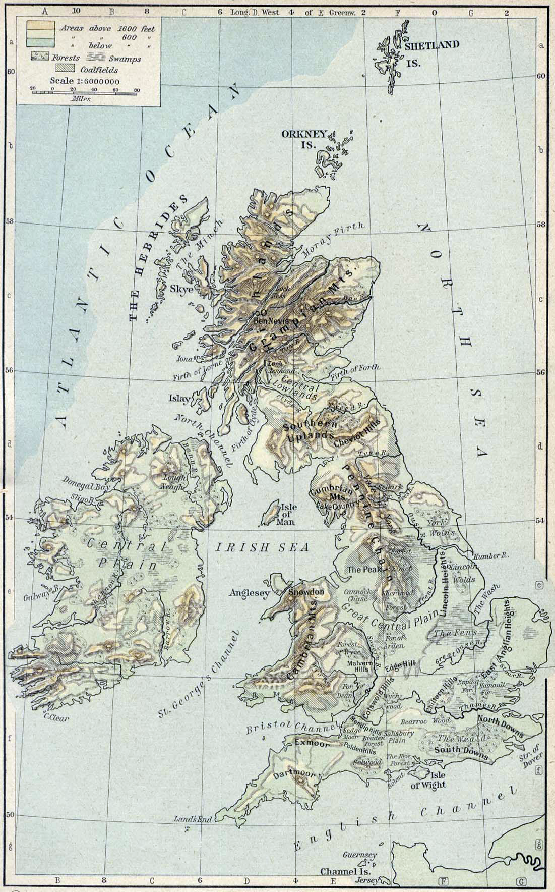 Scan from "Historical Atlas" by William R. Shepherd, New York, Henry Holt and Company, 1926 ed. Original image at the Perry-Castañeda Library Map Collection at the University of Texas at Austin website: From the FAQ @ Most of the maps scanned by the University of Texas Libraries and served from this web site are in the public domain. No permissions are needed to copy them. You may download them and use them as you wish. A few maps are copyrighted, and are clearly marked as such. Any that are copyrighted by The University of Texas are subject to our Materials Usage Guidelines. This map is not so marked. Slightly CROPPED using Adobe Elements. Category:Historical maps by William R. Shepherd